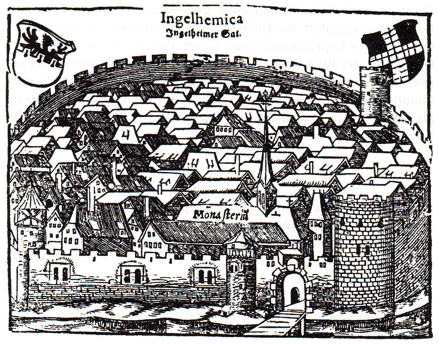 View on Ingelheim